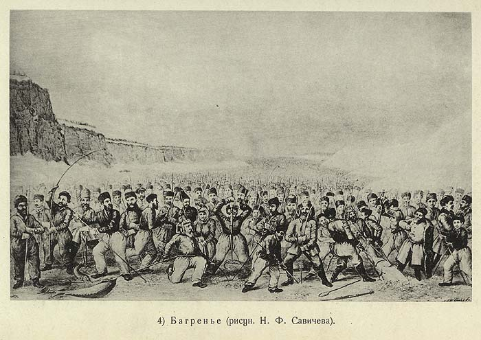 Bagrenye on the Ural River. The bagrenye was a technique of fishing for the sturgeon, employed by the Ural Cossacks on one day out of a year, some time after the Orthodox Christmas. On the bagrenye day, a great number of Cossacks would make holes in the river ice, disturbing the fish hibernating at the river bottom, and would then catch the fish with a pike pole (a kind of spear), known in Russian as bagor. The event took place at various locations downstream of Uralsk, in what today is the Republic of Kazakhstan.